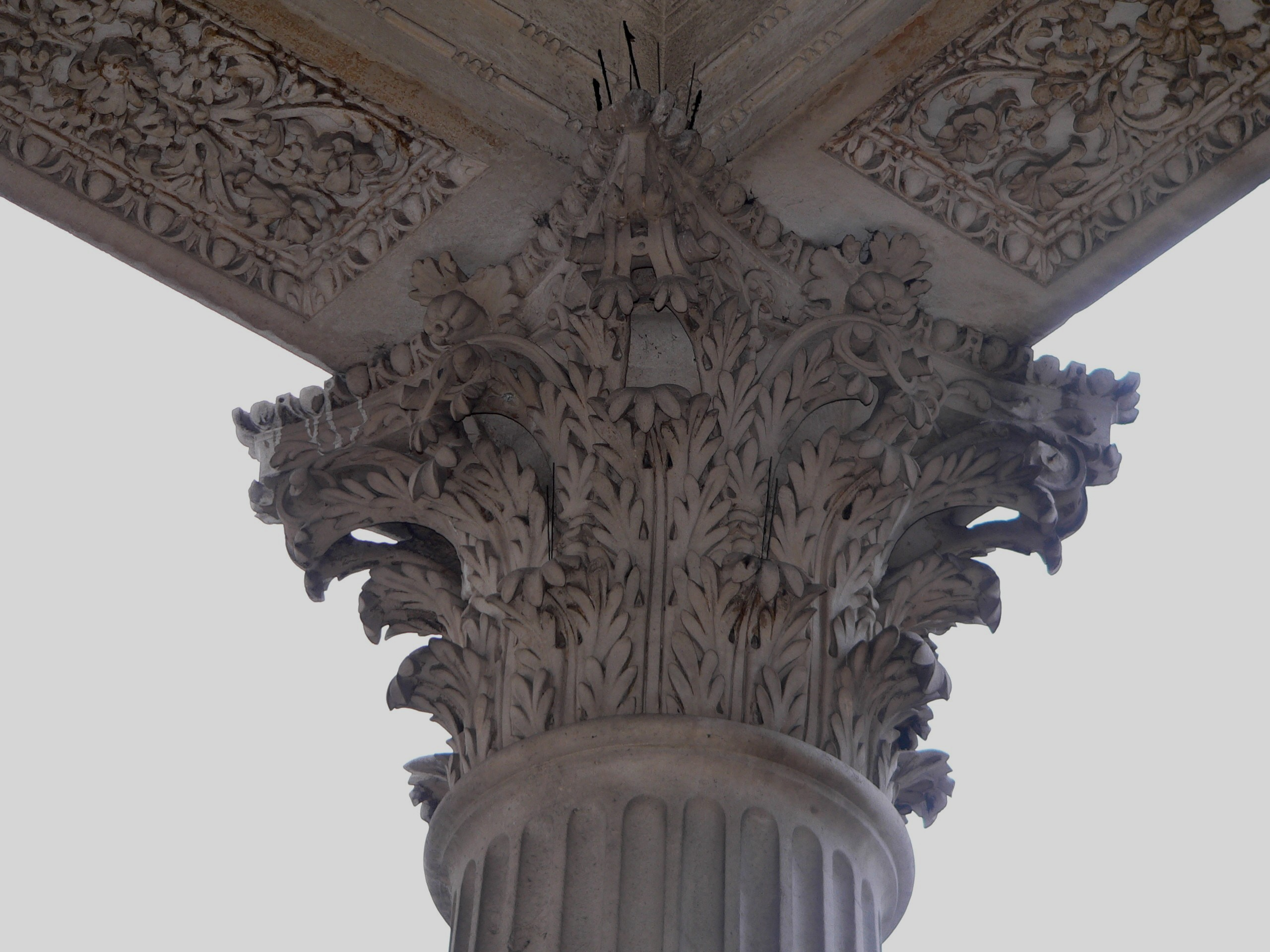 Finely carved corinthian capital on the portico of Chiswick Villa. These capitals were derived from the Temple of Jupiter Stator